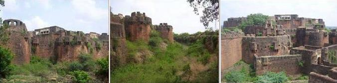 Basava Kalyan Fort